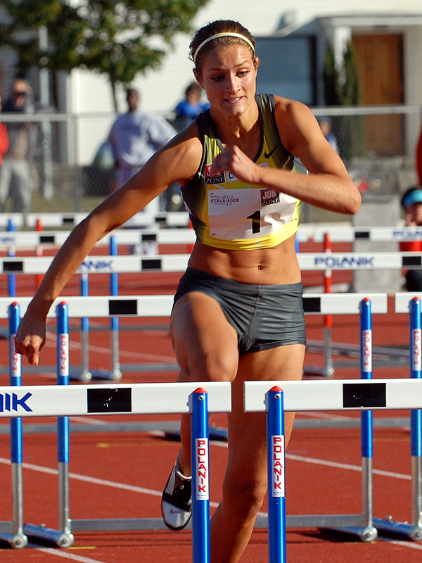 Christina Vukicevic at Stavanger Games 2007.